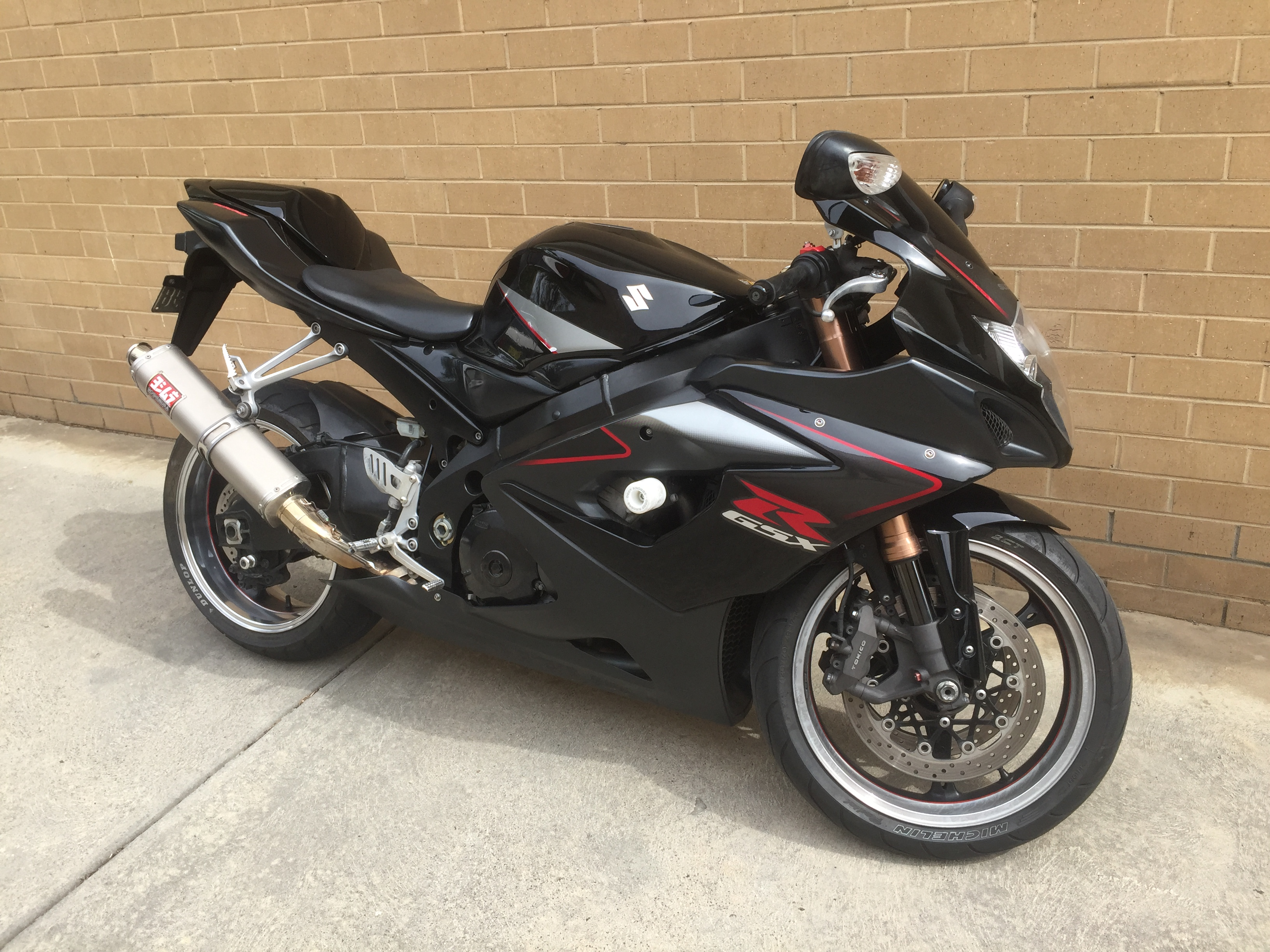 Black/Red Suzuki GSX-R1000 2005 year of production fitted with an aftermarket Yoshimura slip-on exhaust, chrome-edged rims and oggy-knob frame protectors. Photographed in Melbourne, Australia.